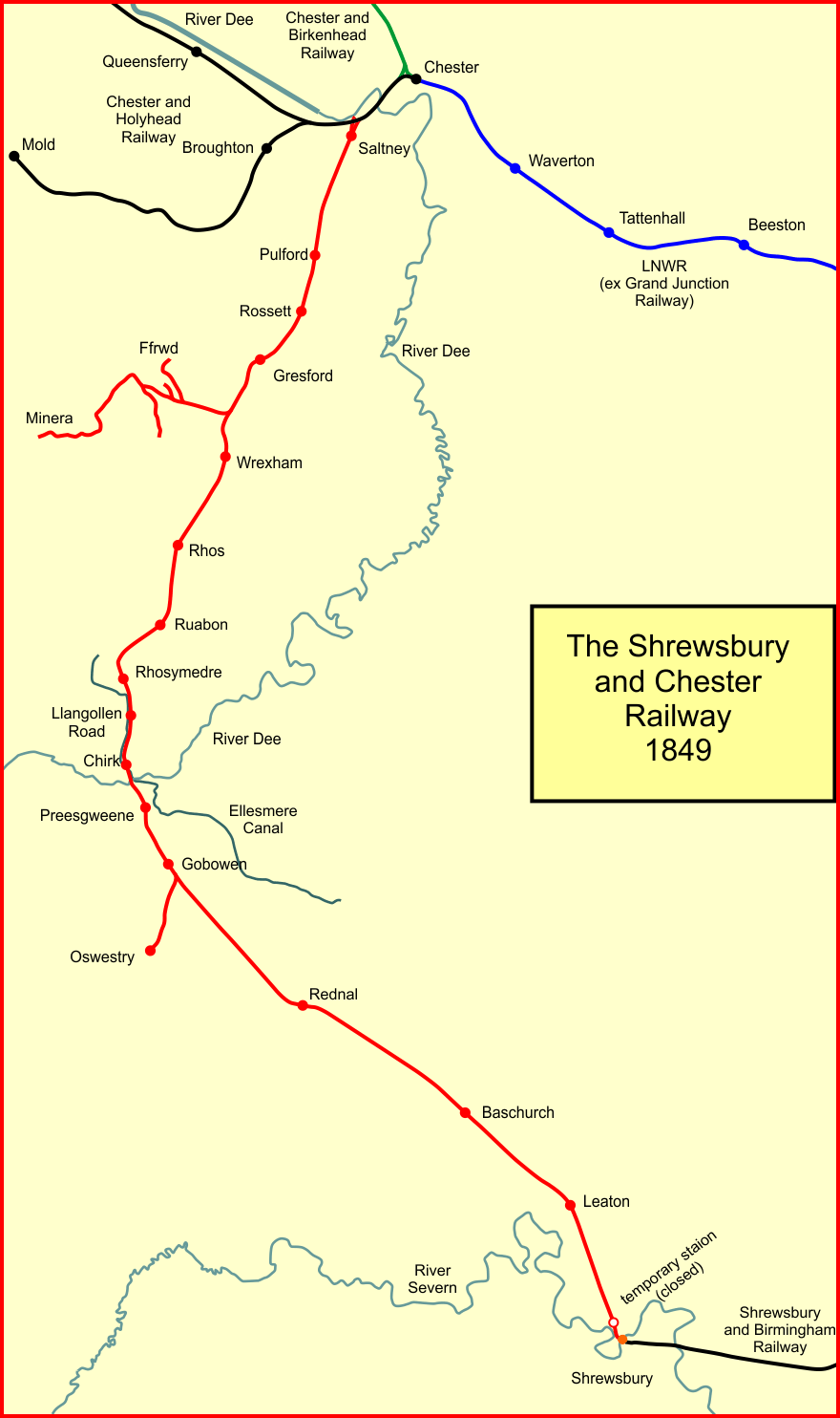 System map of the Shrewsbury and Chester Railway after its formation, in 1849